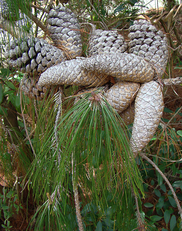 Pinus patula. Cultivated, UC Berkeley Botanical Gardens.